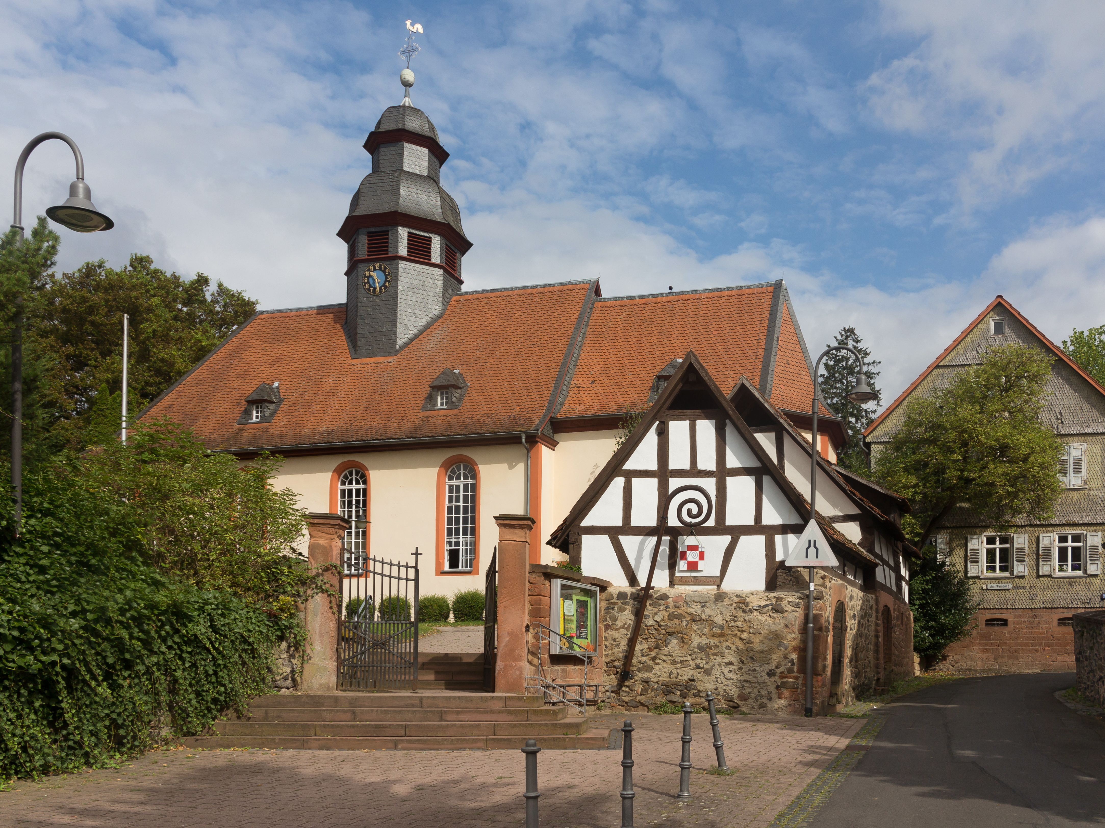 Düdelsheim, reformed church